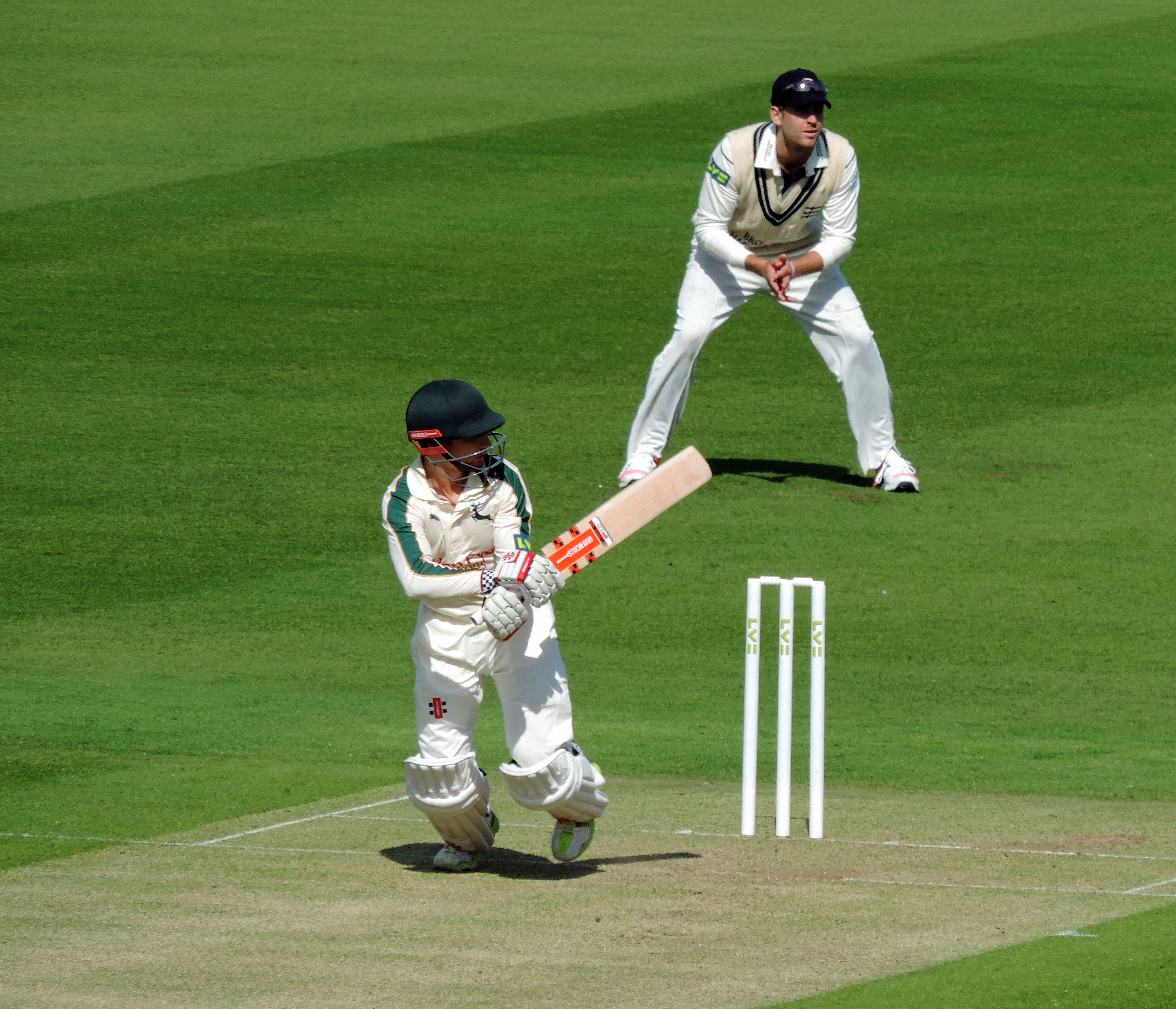 James Taylor of Notts playing a shot. The County Championship starts mid April these days; luckily we had some decent weather for Middlesex's opening fixture, against Notts - which has ended in a draw.